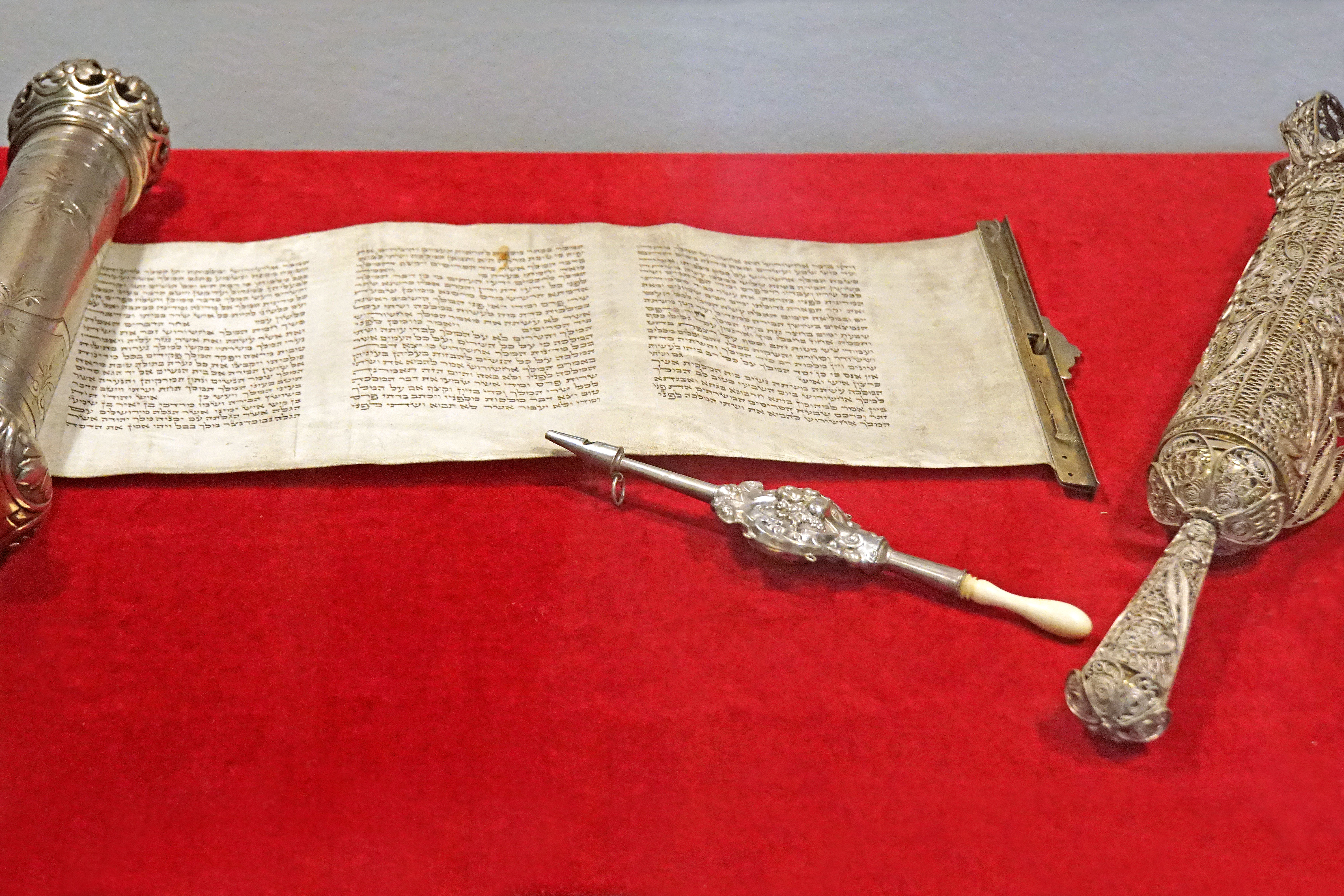 PLEASE, NO invitations or self promotions, THEY WILL BE DELETED. My photos are FREE to use, just give me credit and it would be nice if you let me know, thanks. Left to right: Esther Scroll & case (1872), Pointer with a whistle (Poland 19th/20th) and Esther Scroll Case - Poland (1918-1939) The Remah Synagogue, is named after Rabbi Moses Isserles (1525–1572). Remah Synagogue is the smallest of all historic synagogues of the Kazimierz district of Krakow. It is currently one of two active synagogue in the city. Today the synagogue - whose modestly decorated interior features a reconstructed bimah and restored ceiling motifs - are an important pilgrimage site for devout Jews from all over the world.